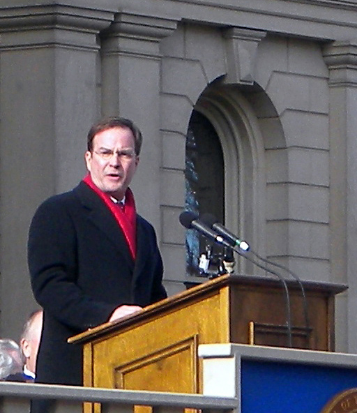 Michigan Attorney General Bill Schuette delivers his address at his inauguration on the steps of the Capitol in Lansing, Michigan on January 1, 2011.